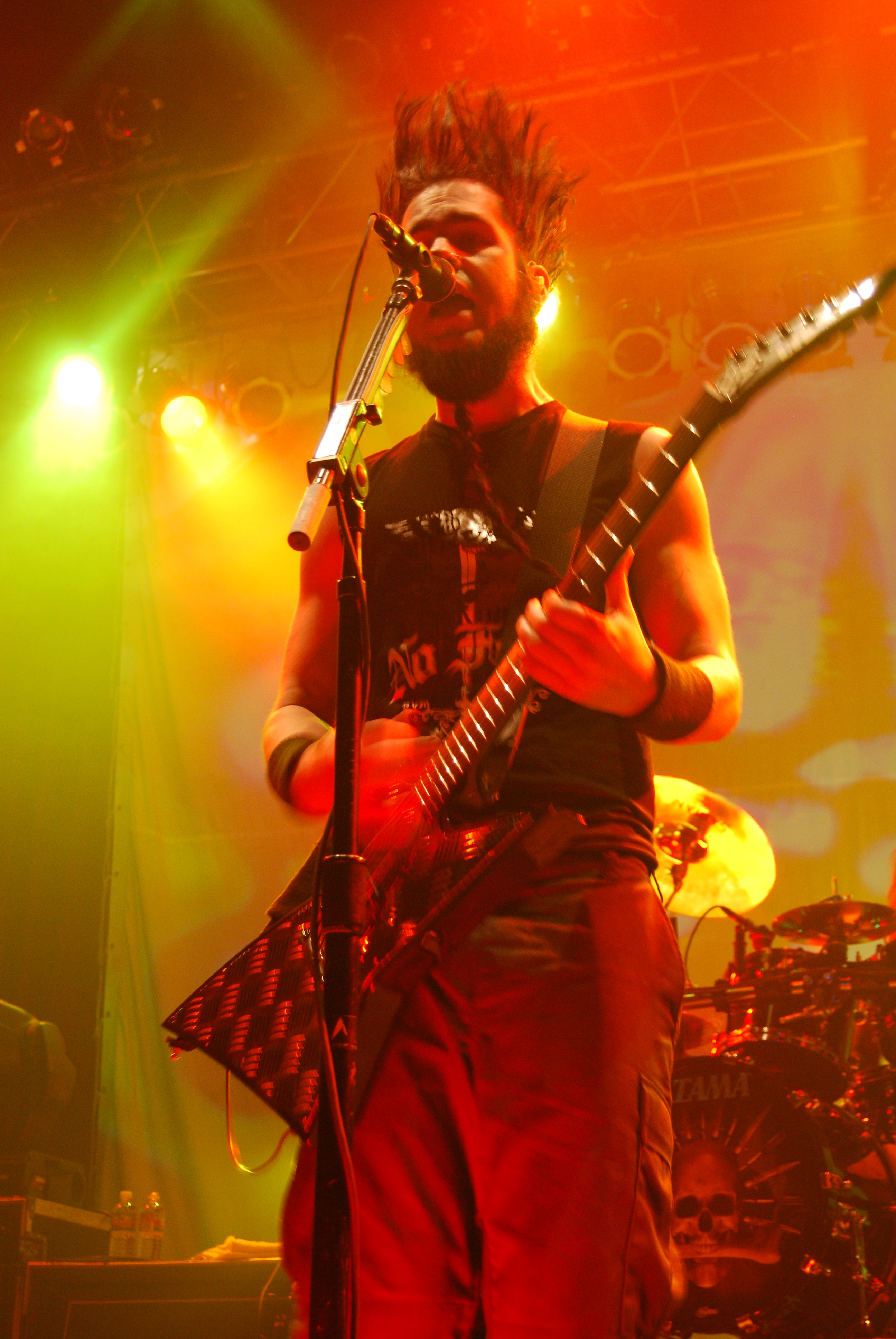 Wayne Static during the Cannibal Killers tour in June 2007.